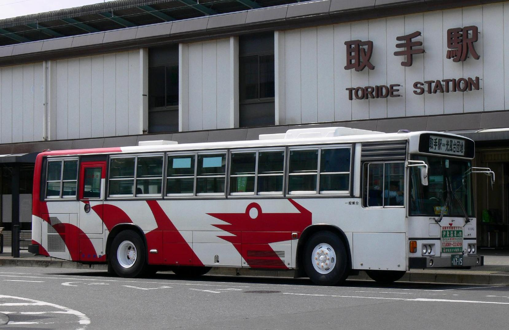 Kanto Railways bus where dragon's illustration is drawn(Japan). It takes a picture at the bus stop in front of Toride Station. 関東鉄道竜ヶ崎営業所が運行するバス。 地元の龍ケ崎市の「龍」にちなんで竜のイラストが書かれている。このバスは元茨城観光自動車の車両である。 取手駅前バス停にて撮影。